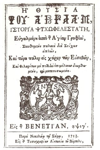 Cover of I thisia tou Avraam